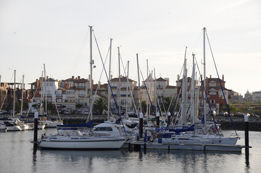 Puerto Sherry and its Marine Village